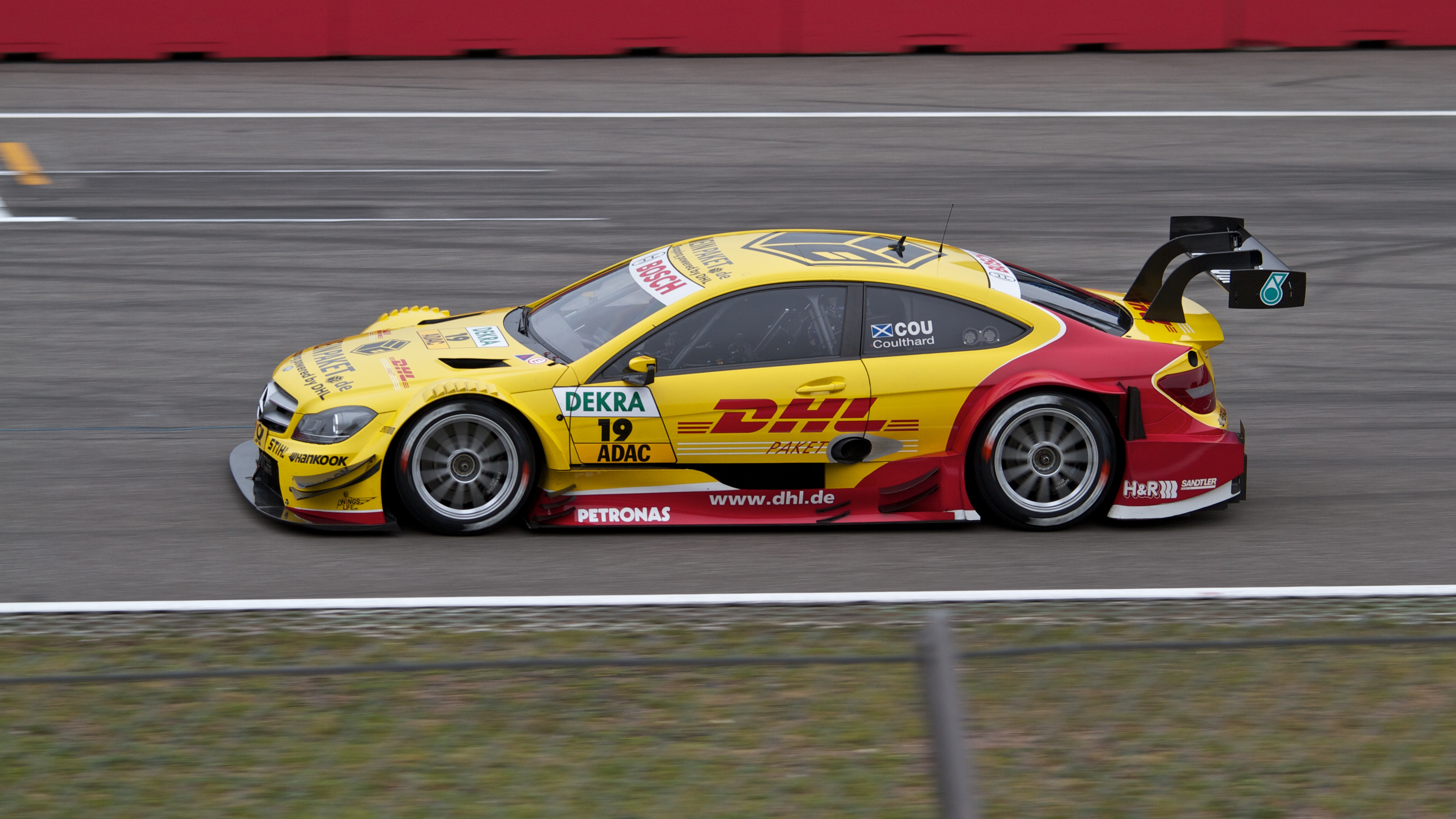 David Coulthard in his Mercedes at Hockenheimring. Round 1 of the 2012 Deutsche Tourenwagen Masters championship.